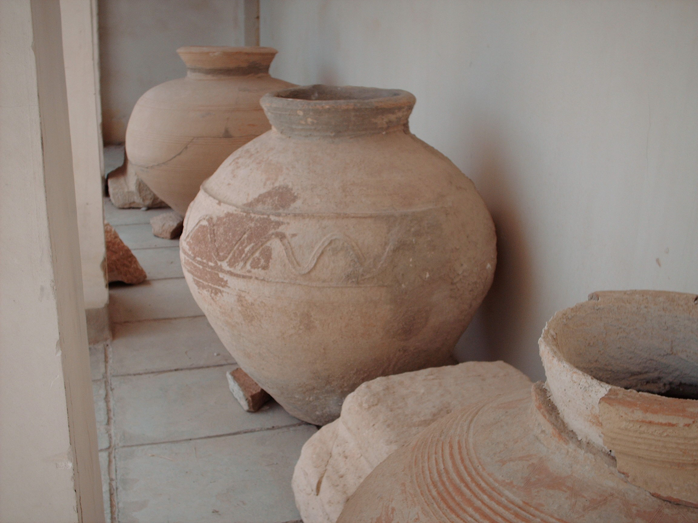 Snapped by myself in Bishapour, Iran, April 2006